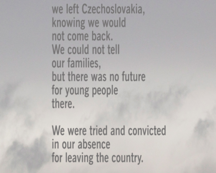 Animation still from an interview-based animation for "Future M" 2016. The animation is based on an interview with Beatrix, a New Yorker originally from Bratislava